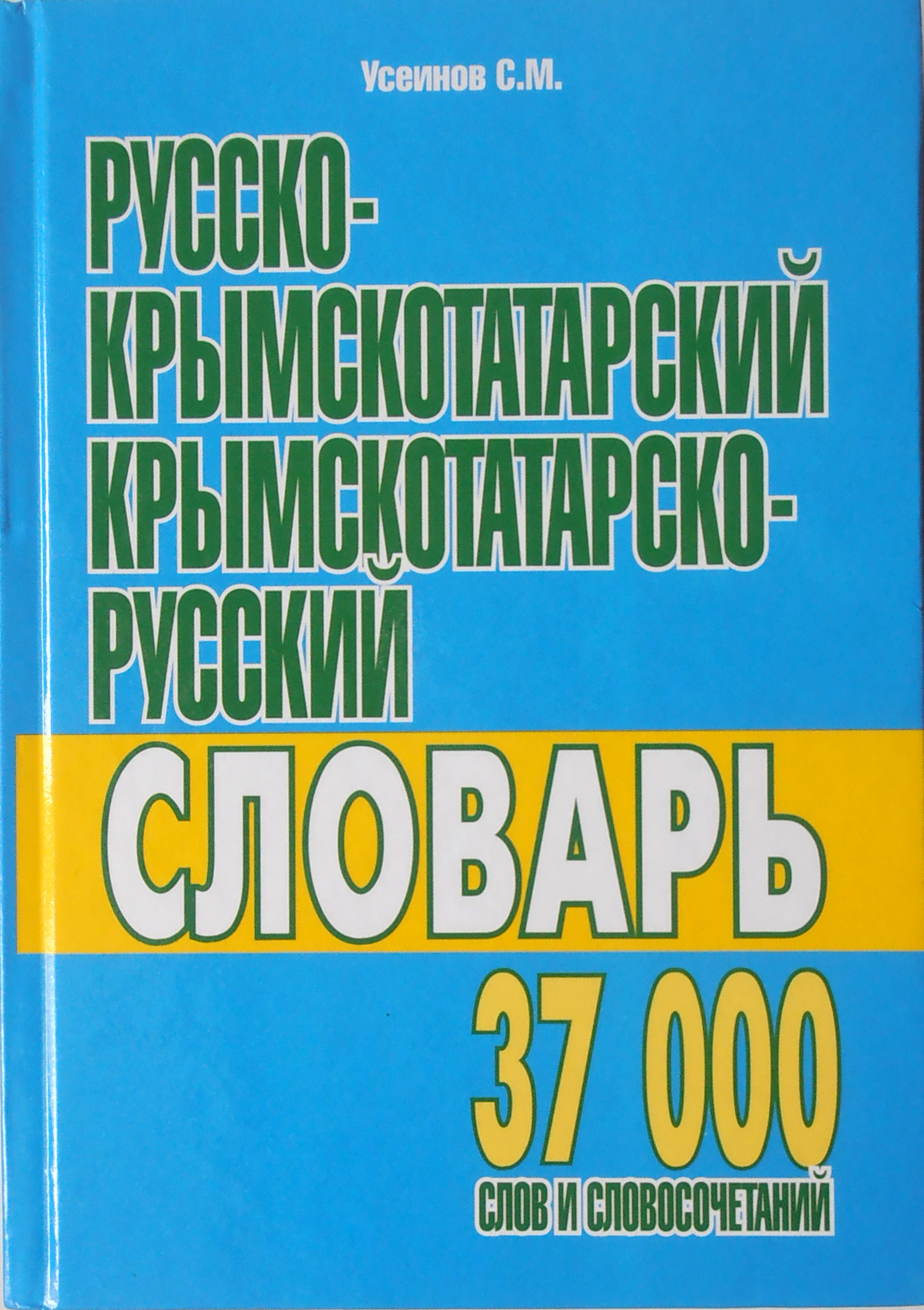 Русско-крымскотатарский, крымскотатарско-русский словарь